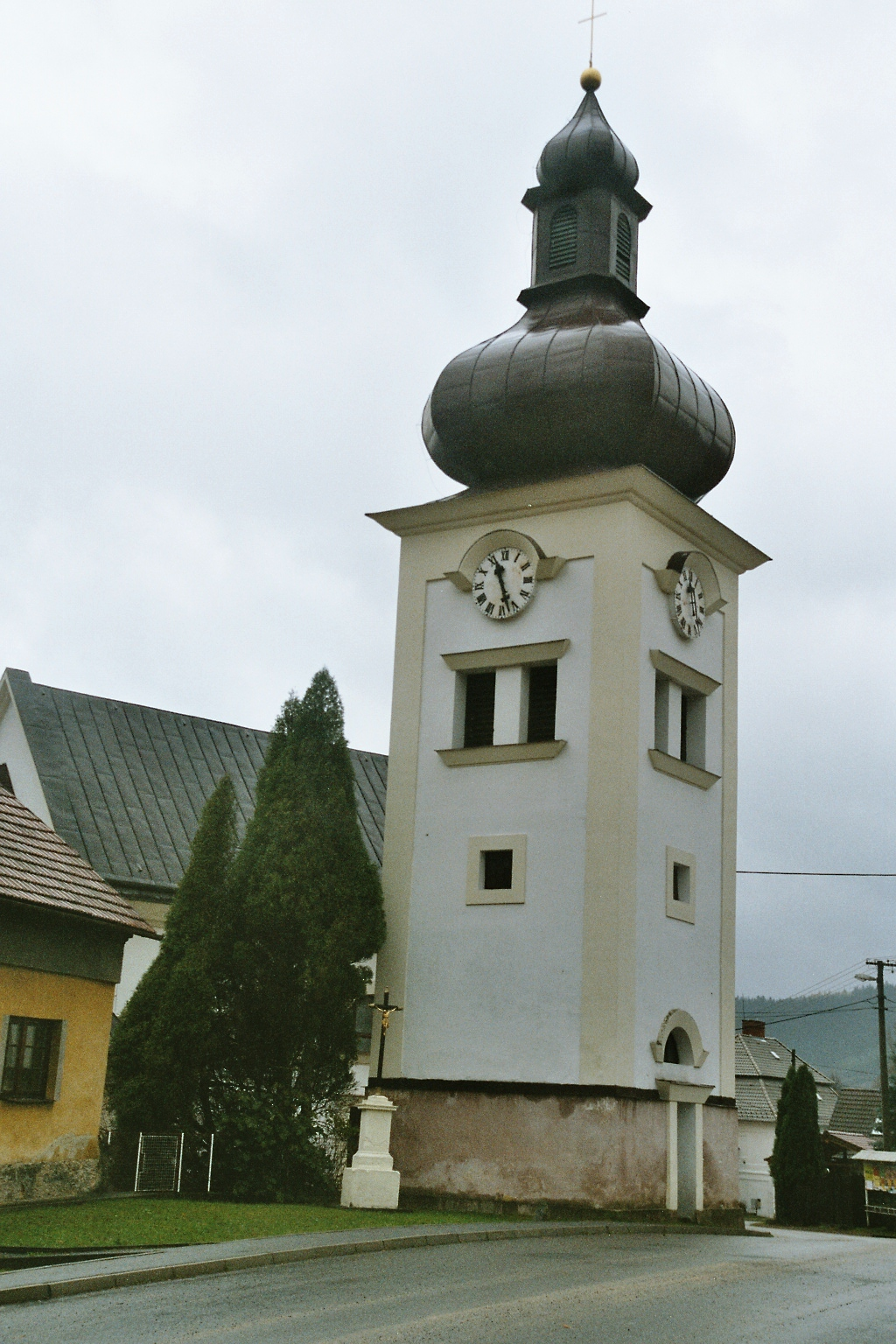 Church of saint Peter and Paul in Štěpánov nad Svratkou, Vysočina Region, Czech republic